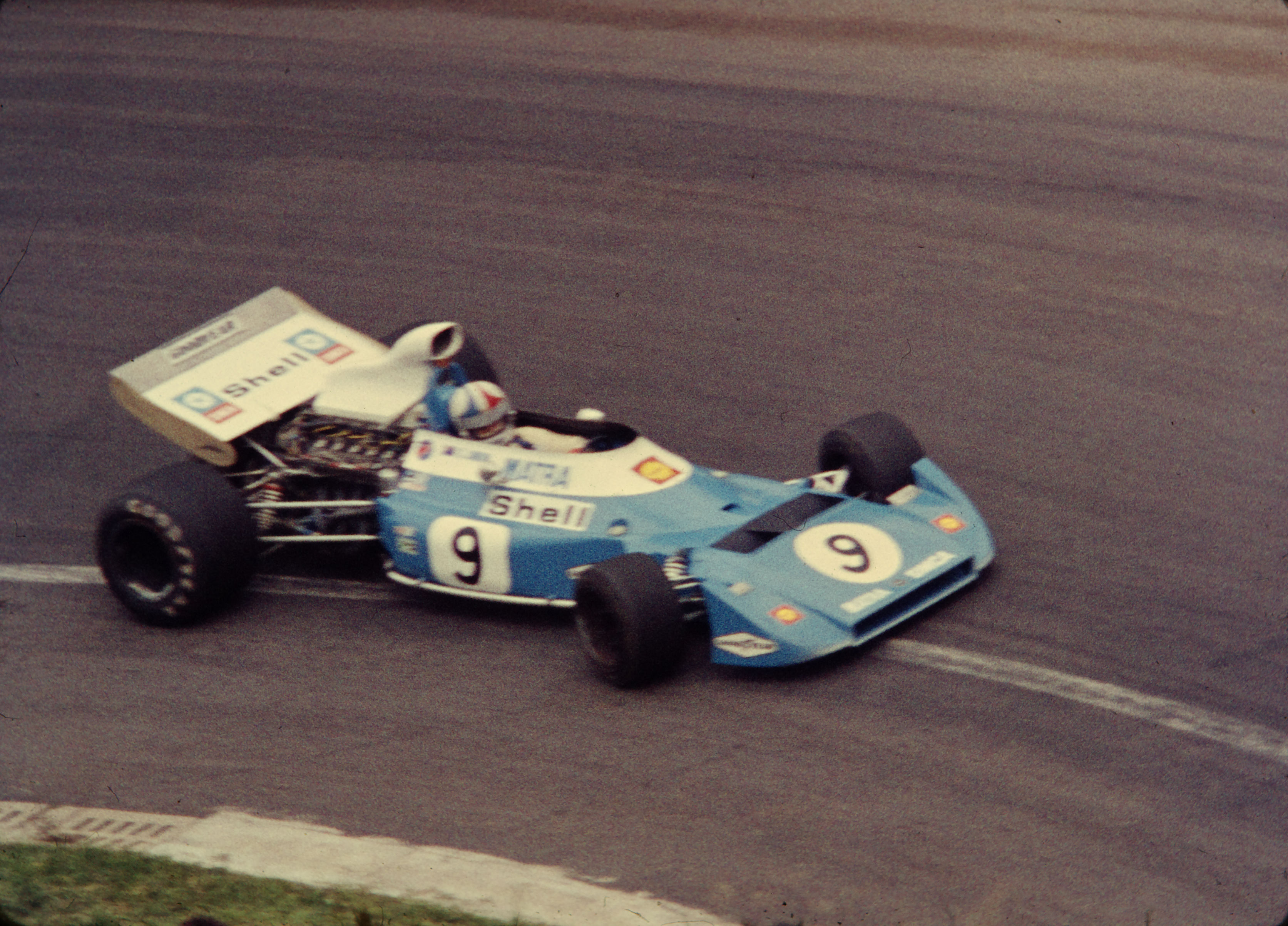 1972 French Grand Prix...